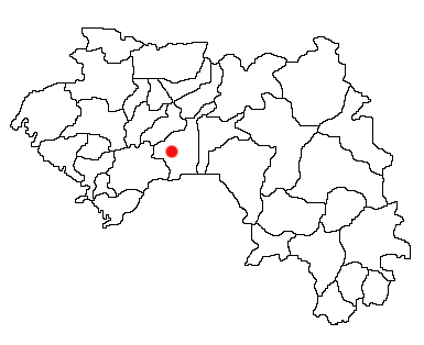 Mamou, Guinea Location Map; created with the GIMP. Made by User:Acntx.